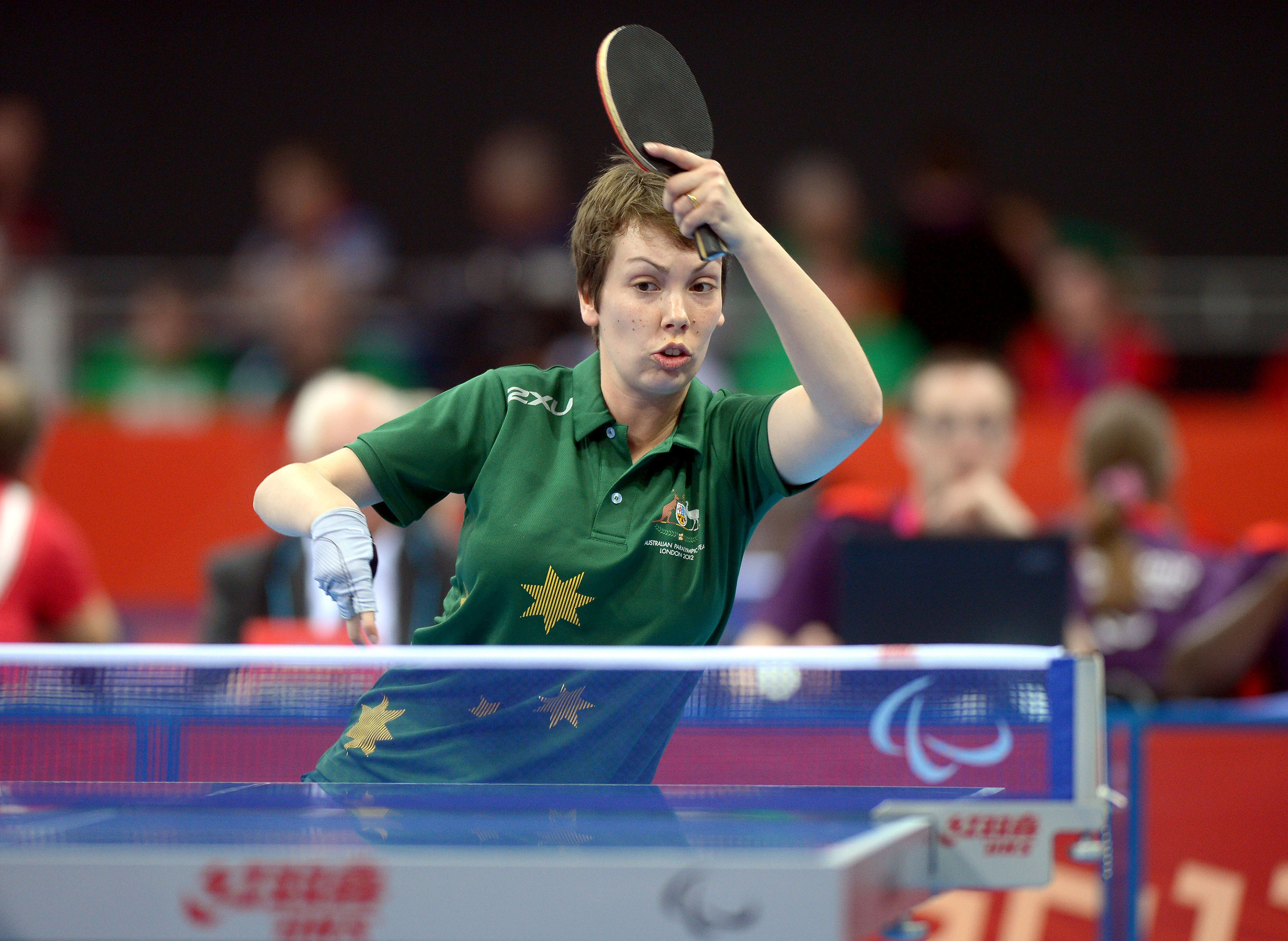 Photograph of Australian Paralympic team member Rebecca McDonnell at the 2012 Summer Paralympic Games in London